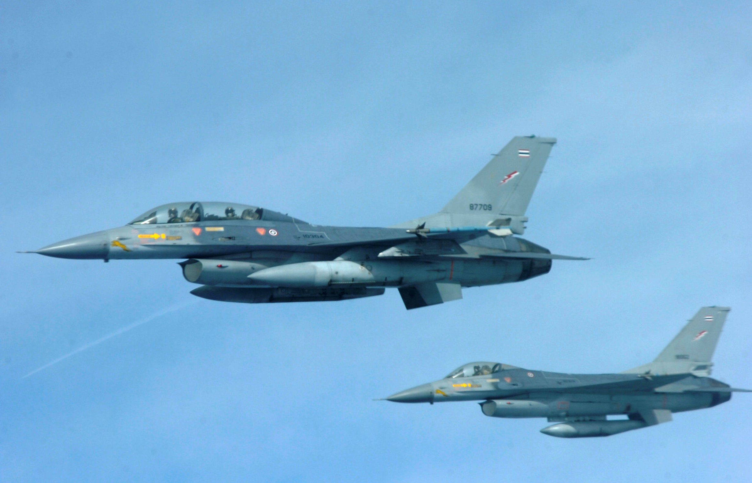 Two Royal Thai Air Force F-16 aircraft fly in formation March 17, 2009, as a part of the aerial missions of Exercise Cope Tiger in Korat, Thailand.